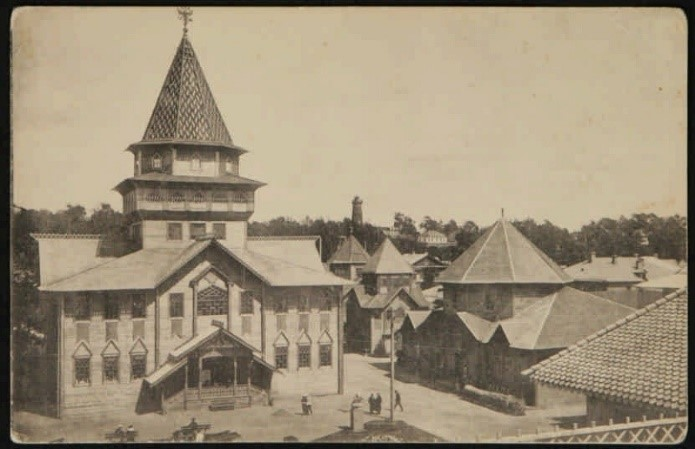 25 павильонов в русском стиле, созданные Л.Р. Сологубом для Костромской ярмарки в 1913 г. Деревянные павильоны просуществовали год и были разобраны.